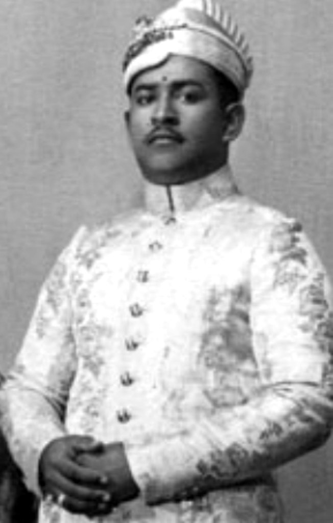 This is the portrait of Uthradom Tirunal taken in 1945.